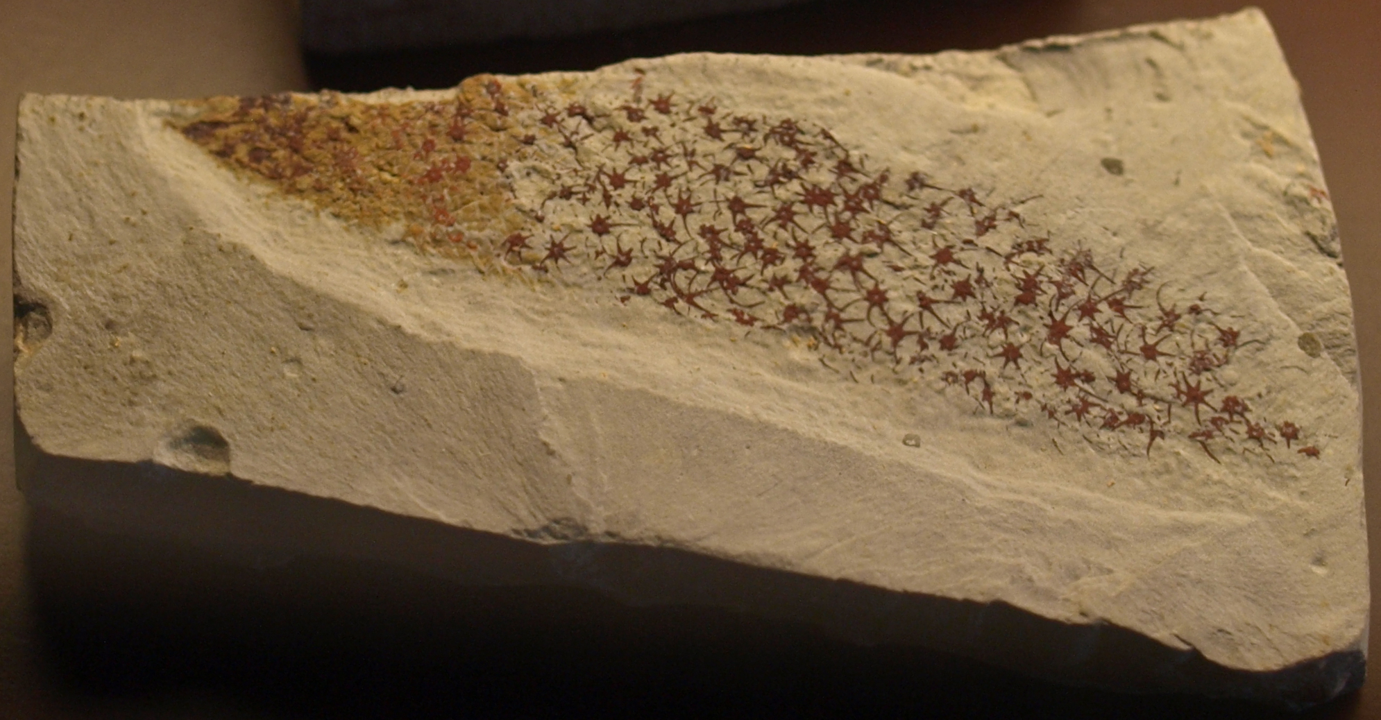 Detail of the lower example of a fossil of Chancelloria eros on display at the Naturhistorisches Museum, Vienna.